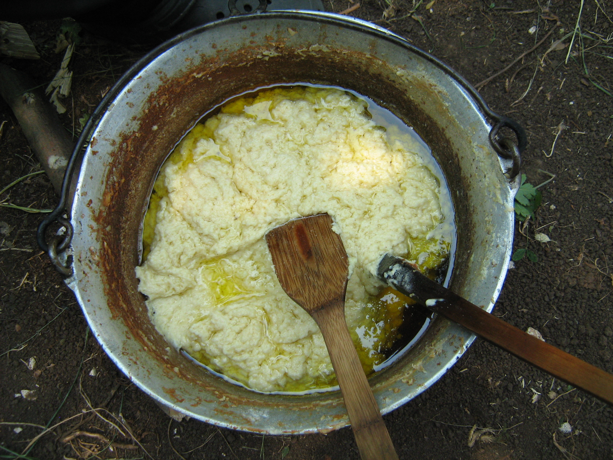 Preparing of Belmuž in the traditional way, in the cauldron